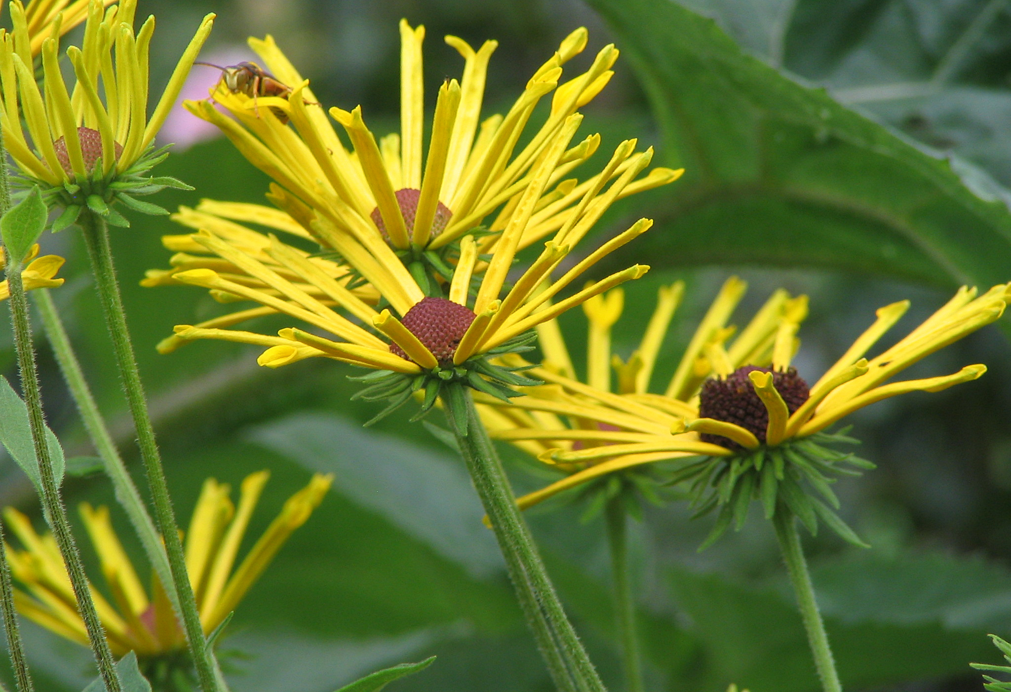 A closeup picture of a few stems of an unidentified yellow flower. Photo taken at the Chanticleer Garden.